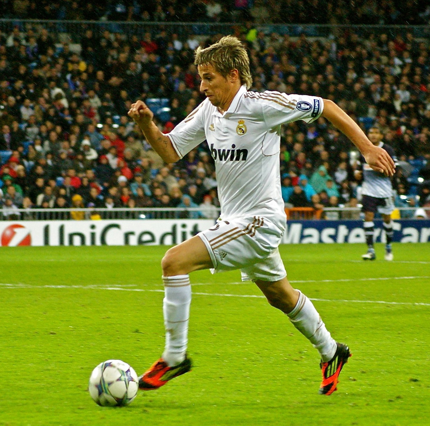 Fábio Coentrão, Real Madrid - Dinamo Zagreb, Champions League 2011